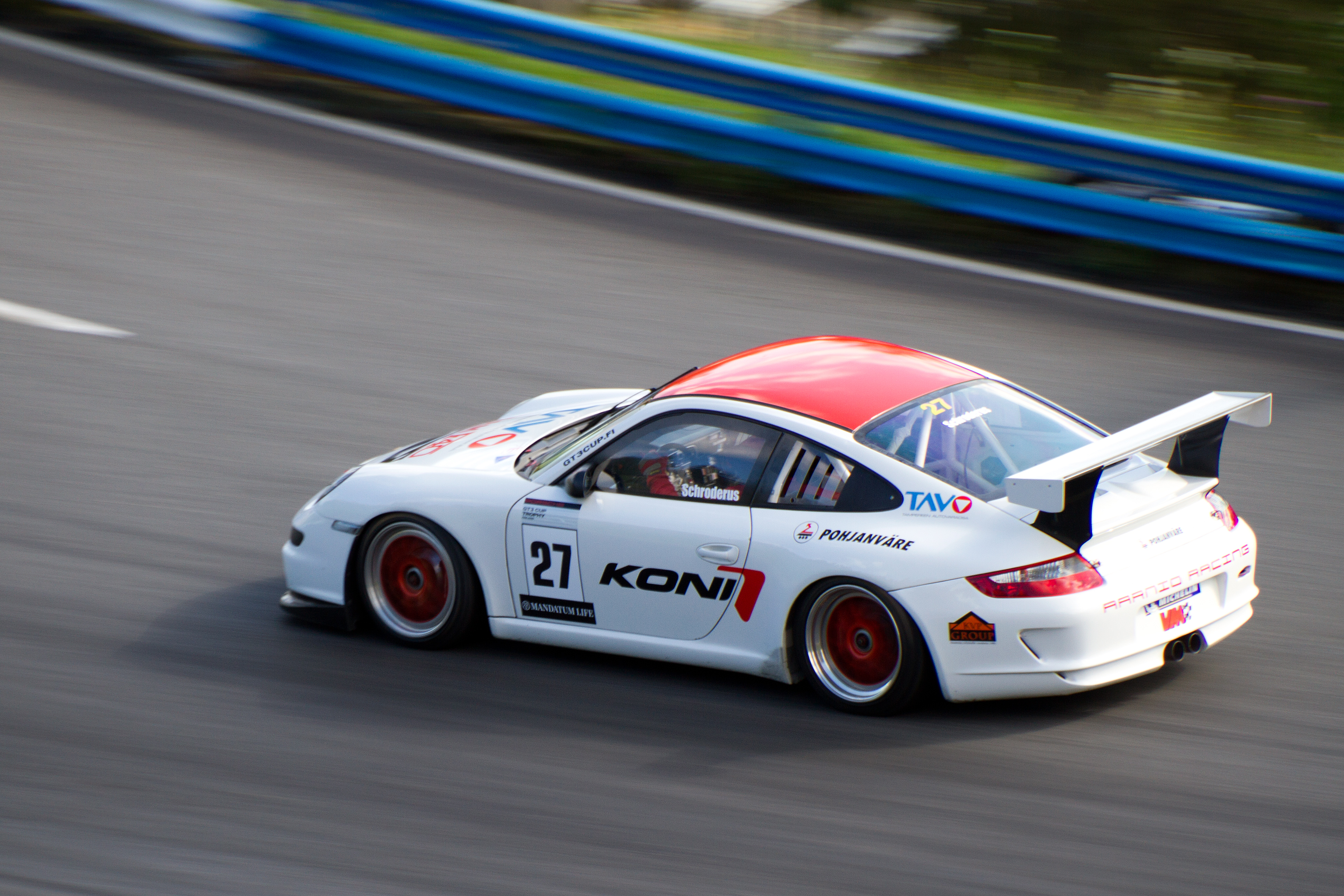 FINRace Ahvenisto